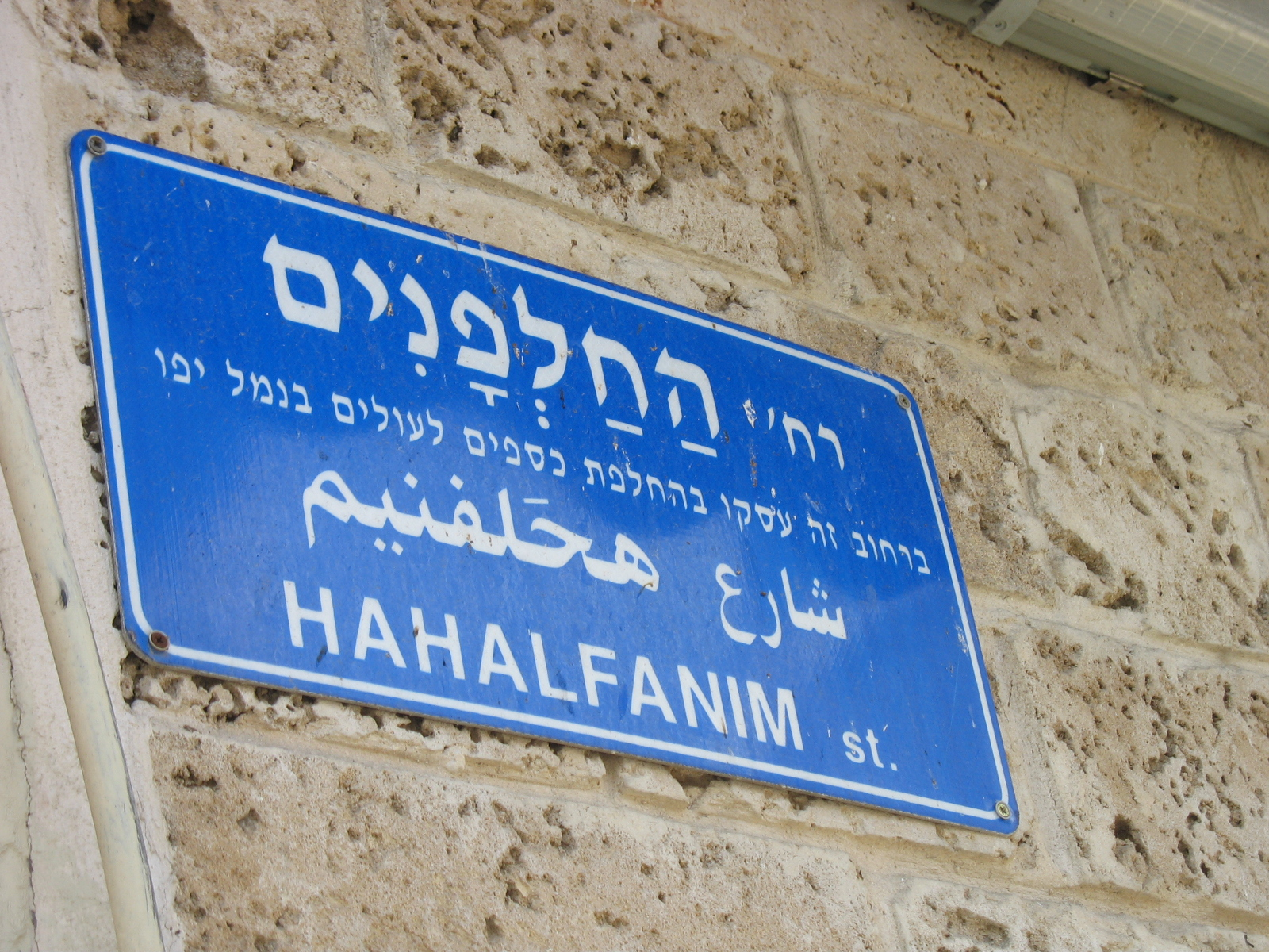 A street sign in Jaffa dedicated to currency changes. In this street there were people who change currency for the incoming immigrants